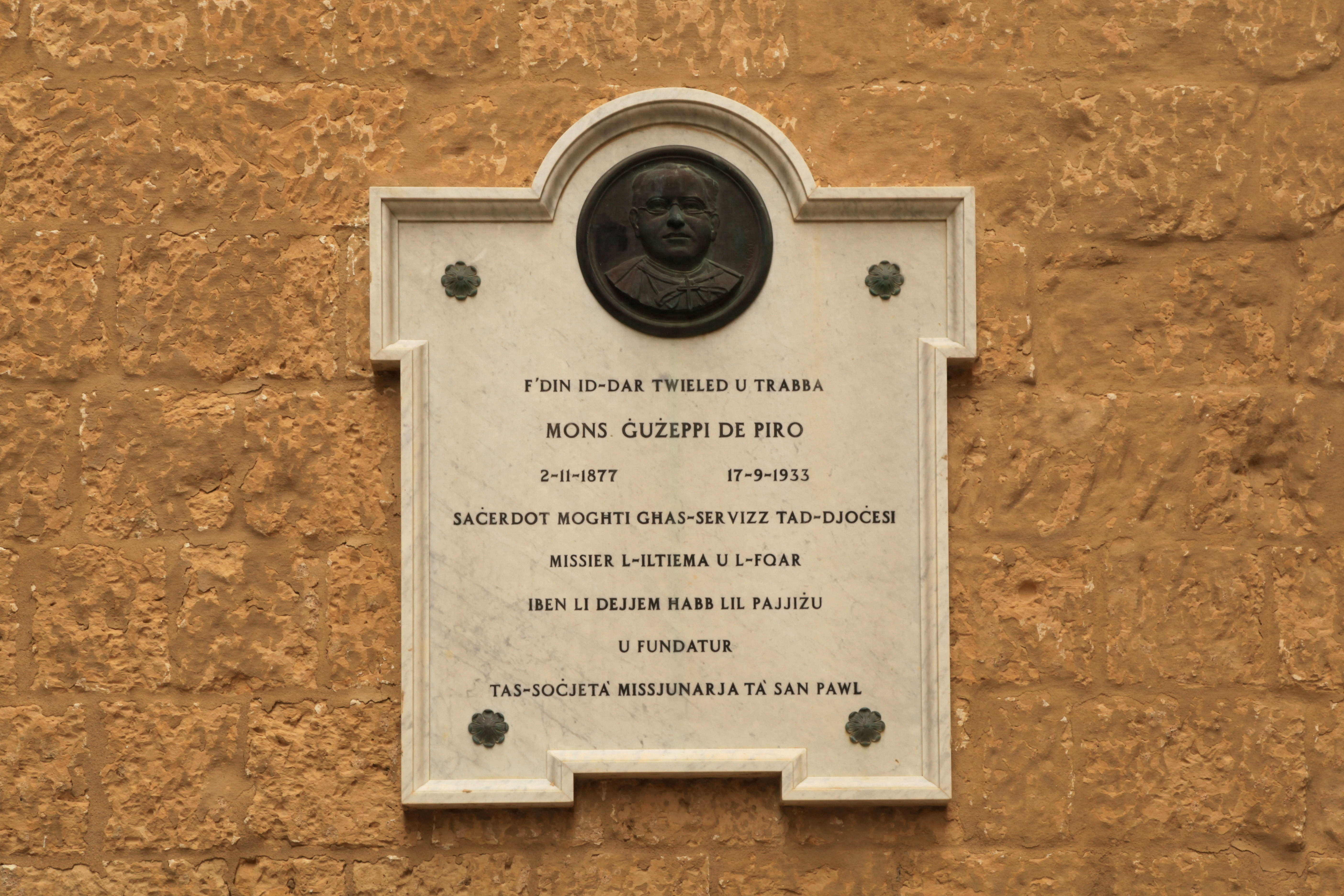 Palazzo de Piro, Triq is-Sur in Mdina, Malta